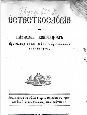 Front page of book published in 1811.